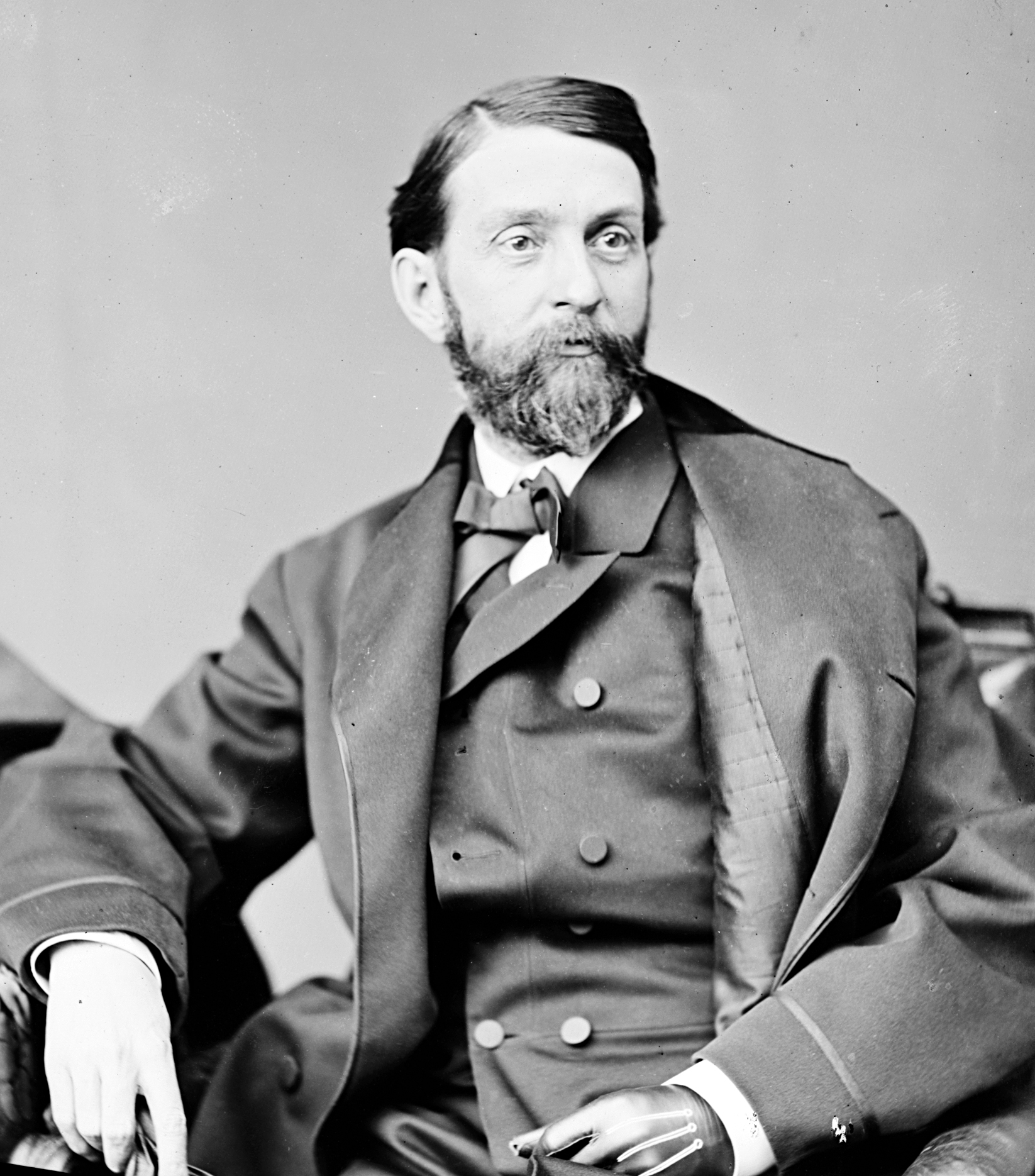 William Thomas Clark, US Representative from Texas